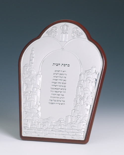 JUDAICA HOUSE BLESSINGS.